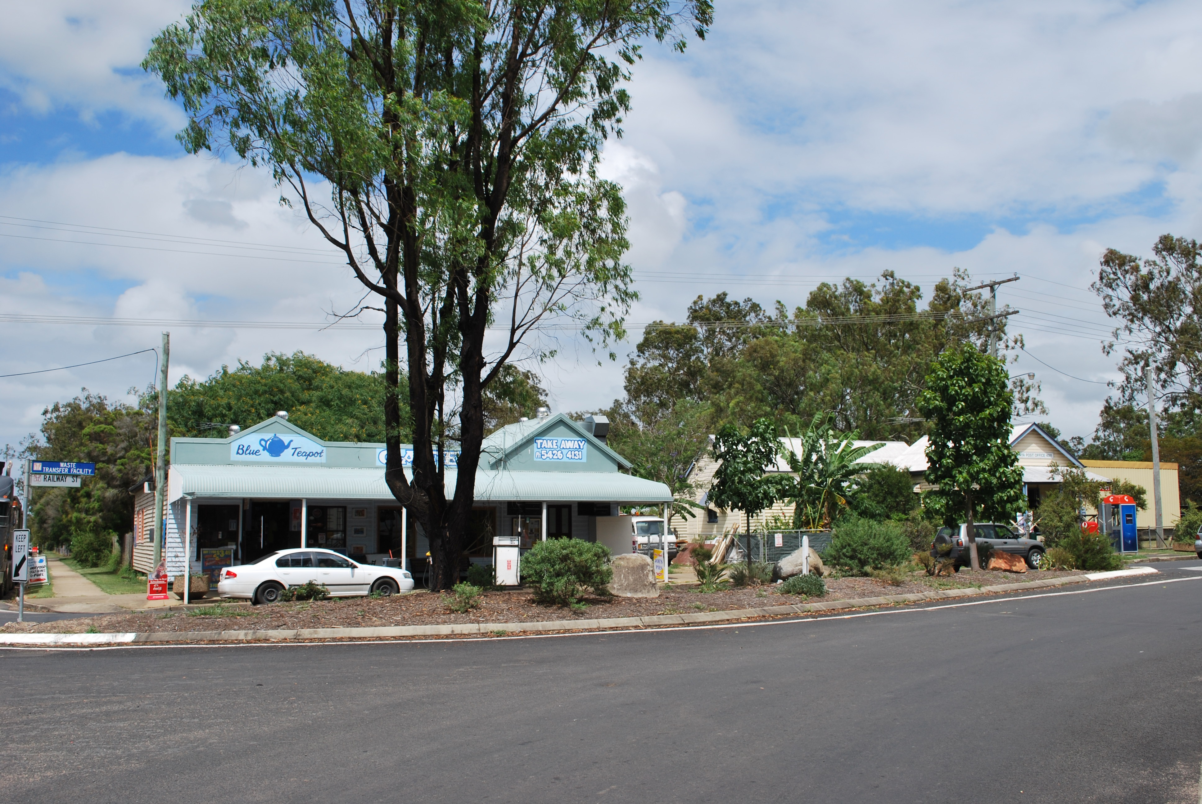 Shops at Coominya, Queensland